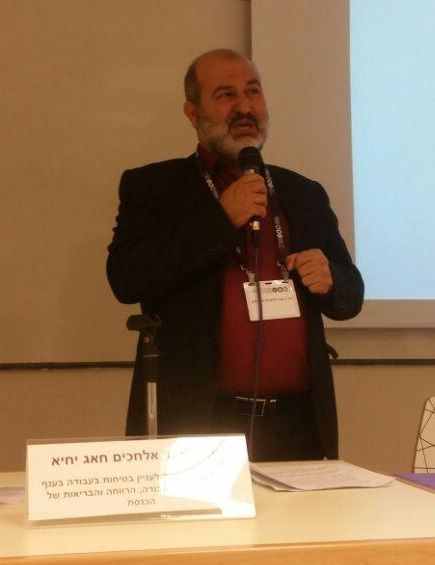 Knesset Member Abd al-Hakim Hajj Yahya